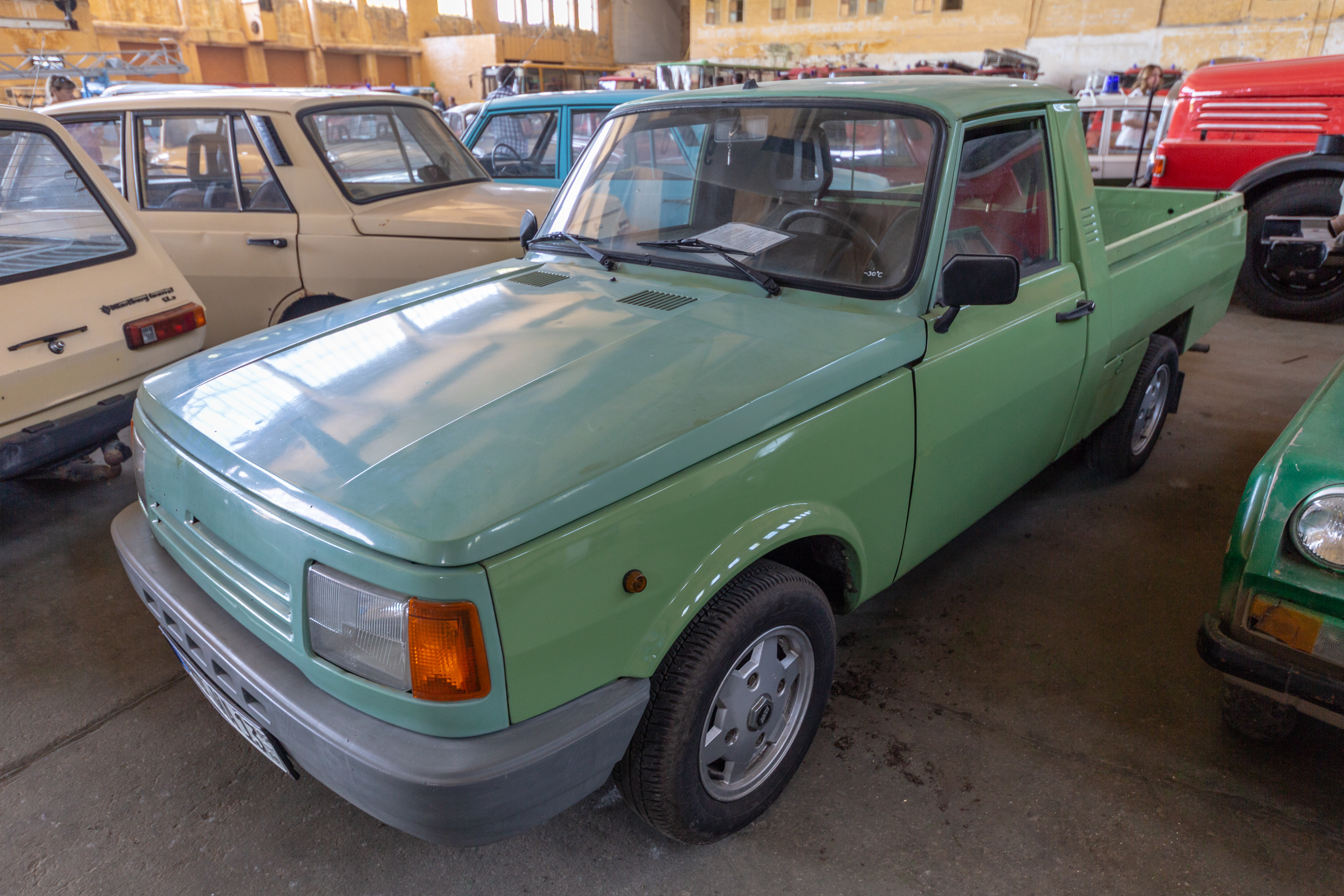 Pfingsttreffen Pütnitz 2018: Wartburg 1.3 Trans